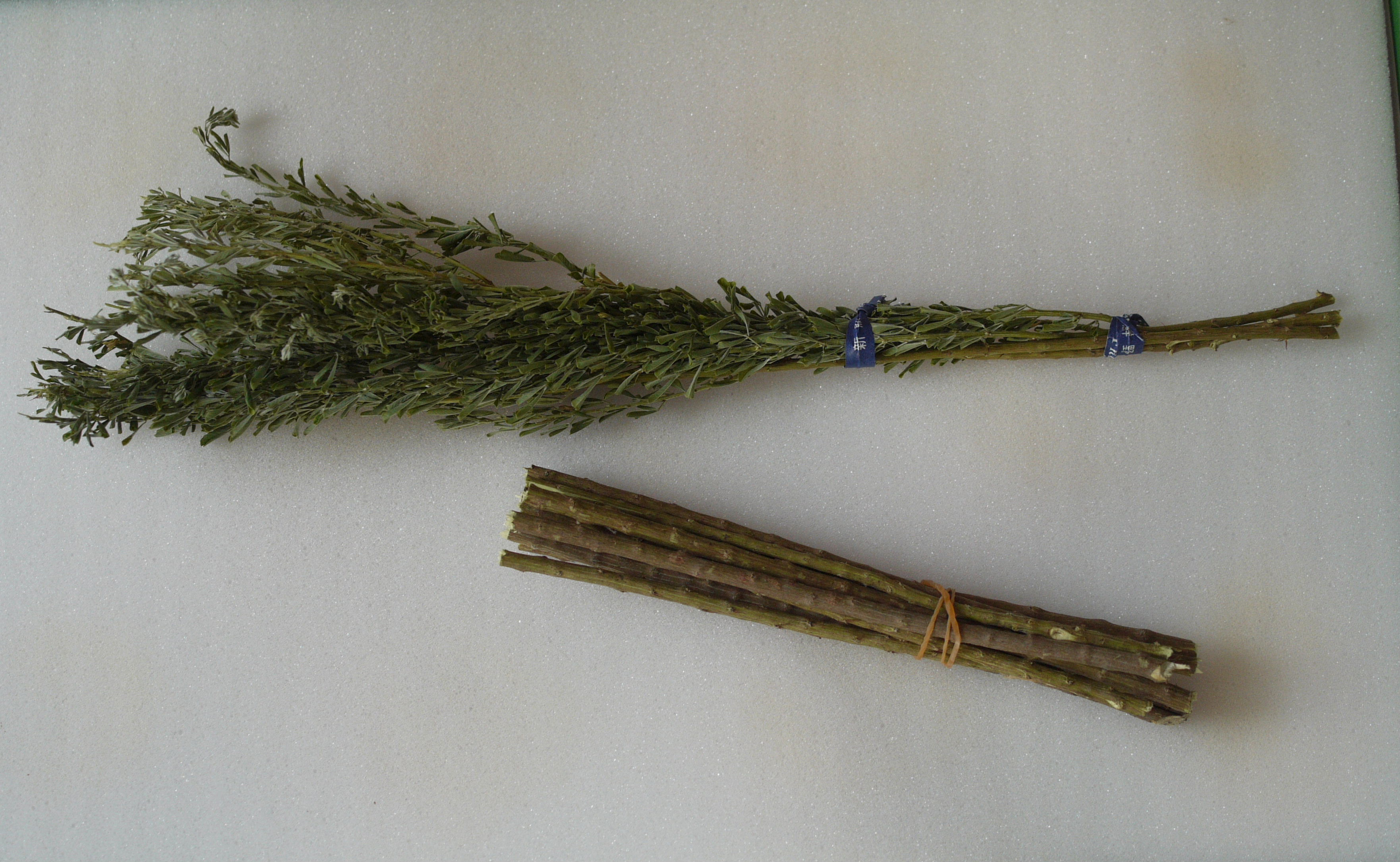 Lespedeza juncea